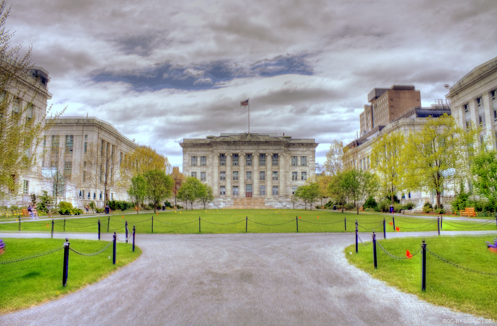 Harvard Medical School